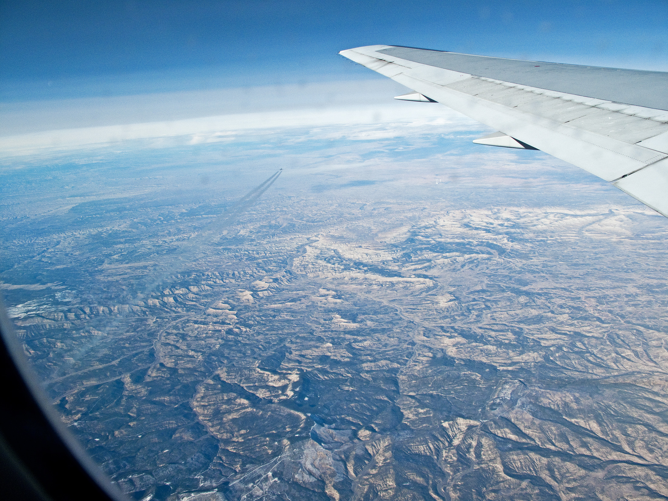 An illustration of vertical separation in flight. I was flying from Los Angeles to New York in a passenger airliner (Boeing 767) at cruising altitude when this plane crossed our path underneath. The location is either the northwest corner of Arizona or near it in southern Utah, USA. As I had missed the same shot a few minutes before because I had waited until I *saw* the other plane, I was ready in case I got a second chance. I adjusted the camera for shutter speed priority and placed the camera against the window. I was lucky that a second plane passed underneath. As soon as I *heard* the other plane, I pushed the shutter release and the camera took the photo about half a second later.